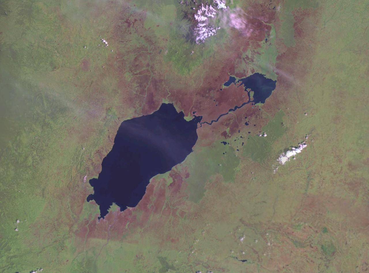 Lake Edward and Lake George, Africa